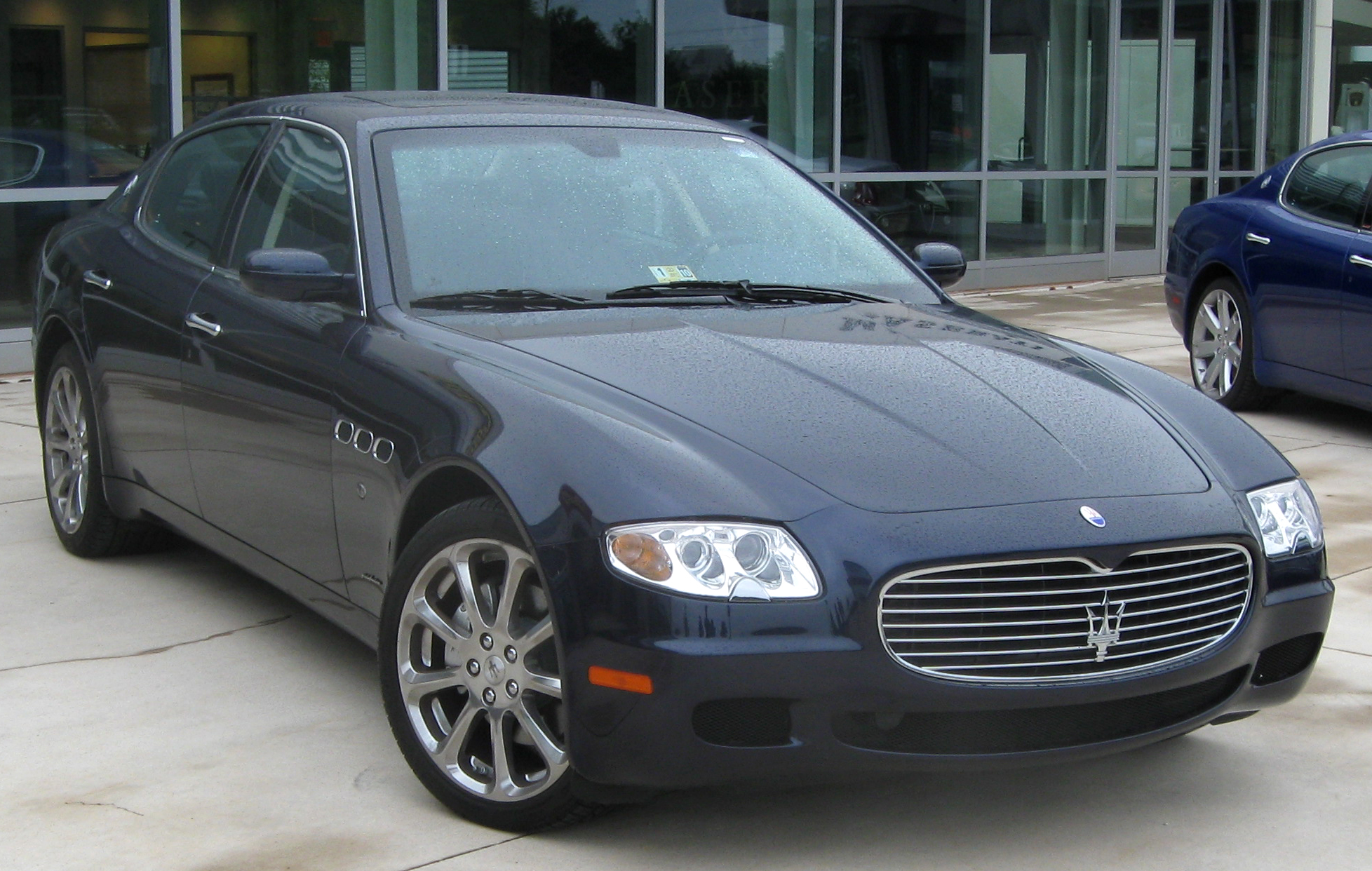 Maserati Quattroporte photographed in Sterling, Virginia, USA.